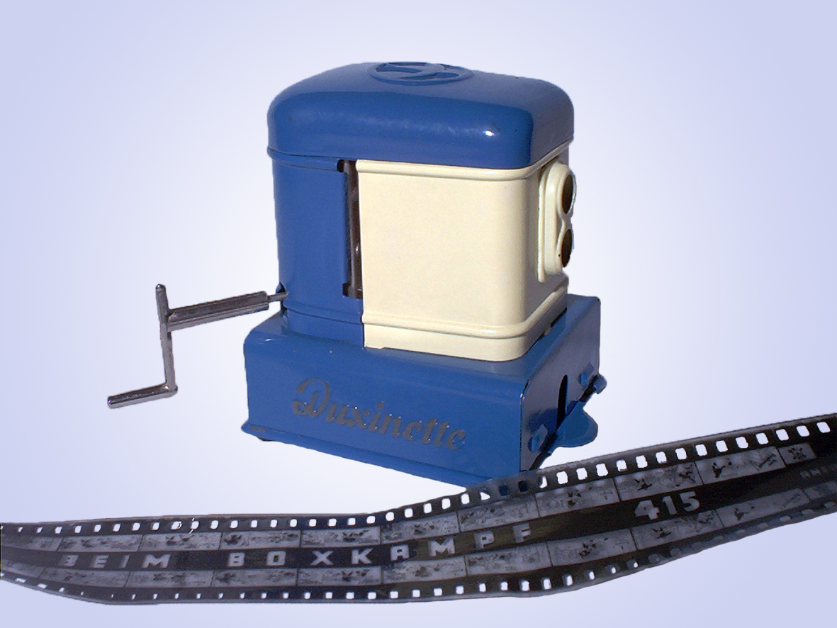 Duxinette Blue